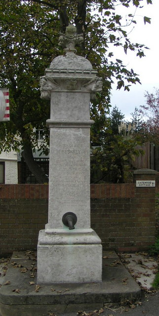 Memorial in memory of Trooper Frederick Allan Freshney. This is water pump erected by friends and family members of Frederick Allen Freshney, who went to South Africa, joined in the Boer War, was injured by a bullet from a Mauser rifle and the Battle of Colenso, 15 December, 1899, and subsequently died in Salfleet on May 20th, 1906.